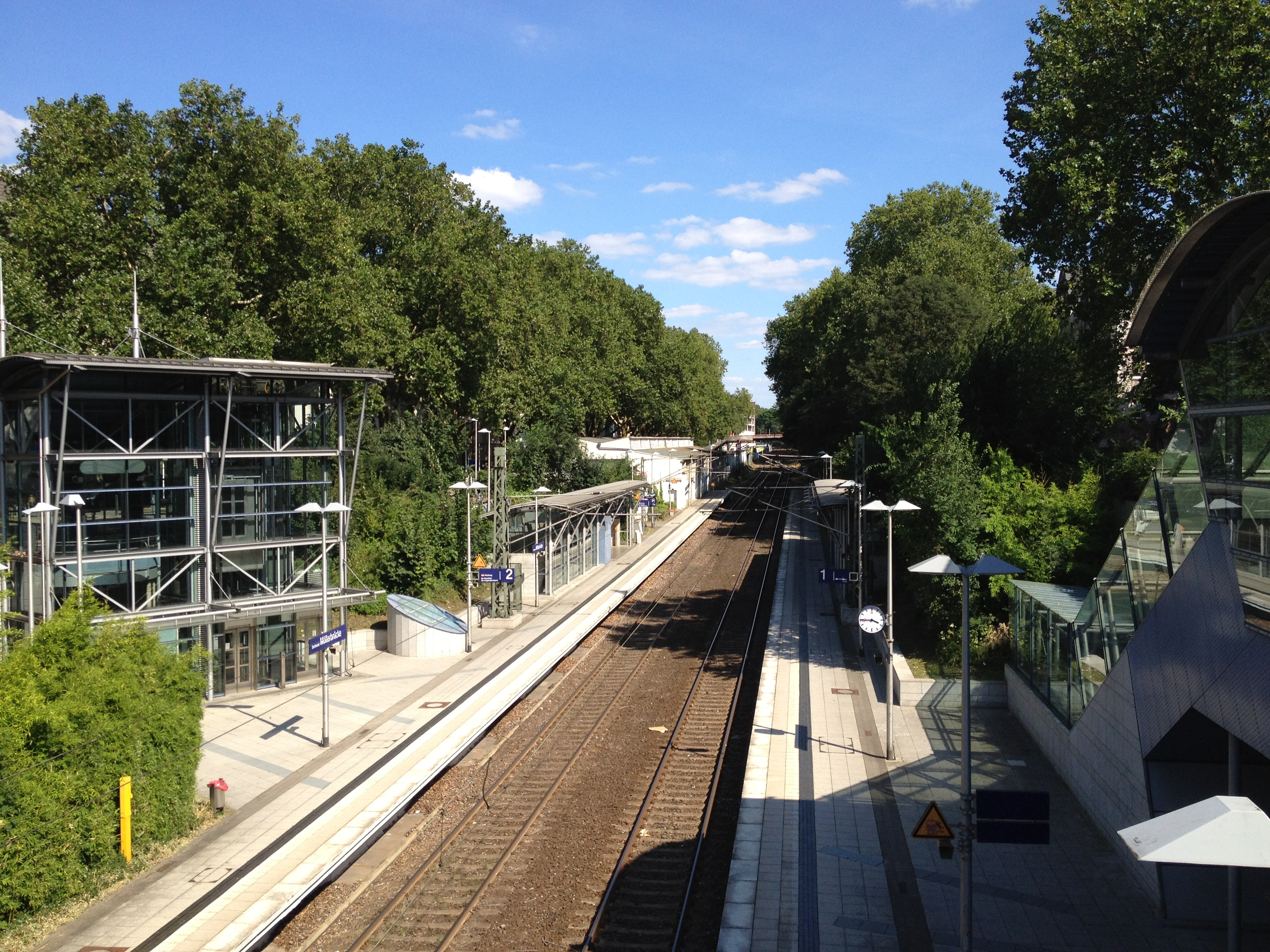 railroad station Möllerbrücke